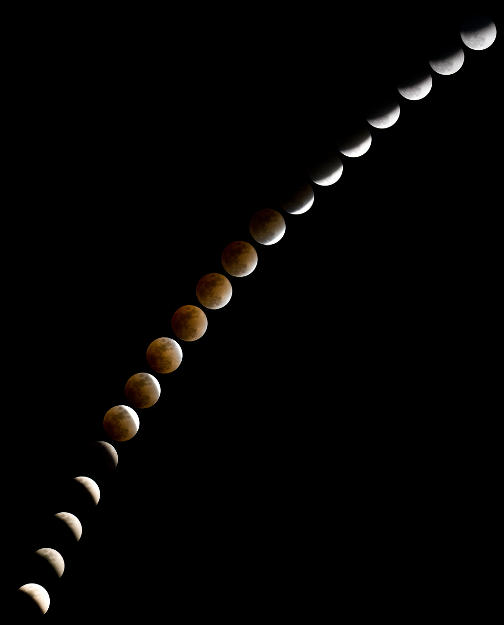 Path of the Moon during the Feb 20, 2008 Lunar Eclipse